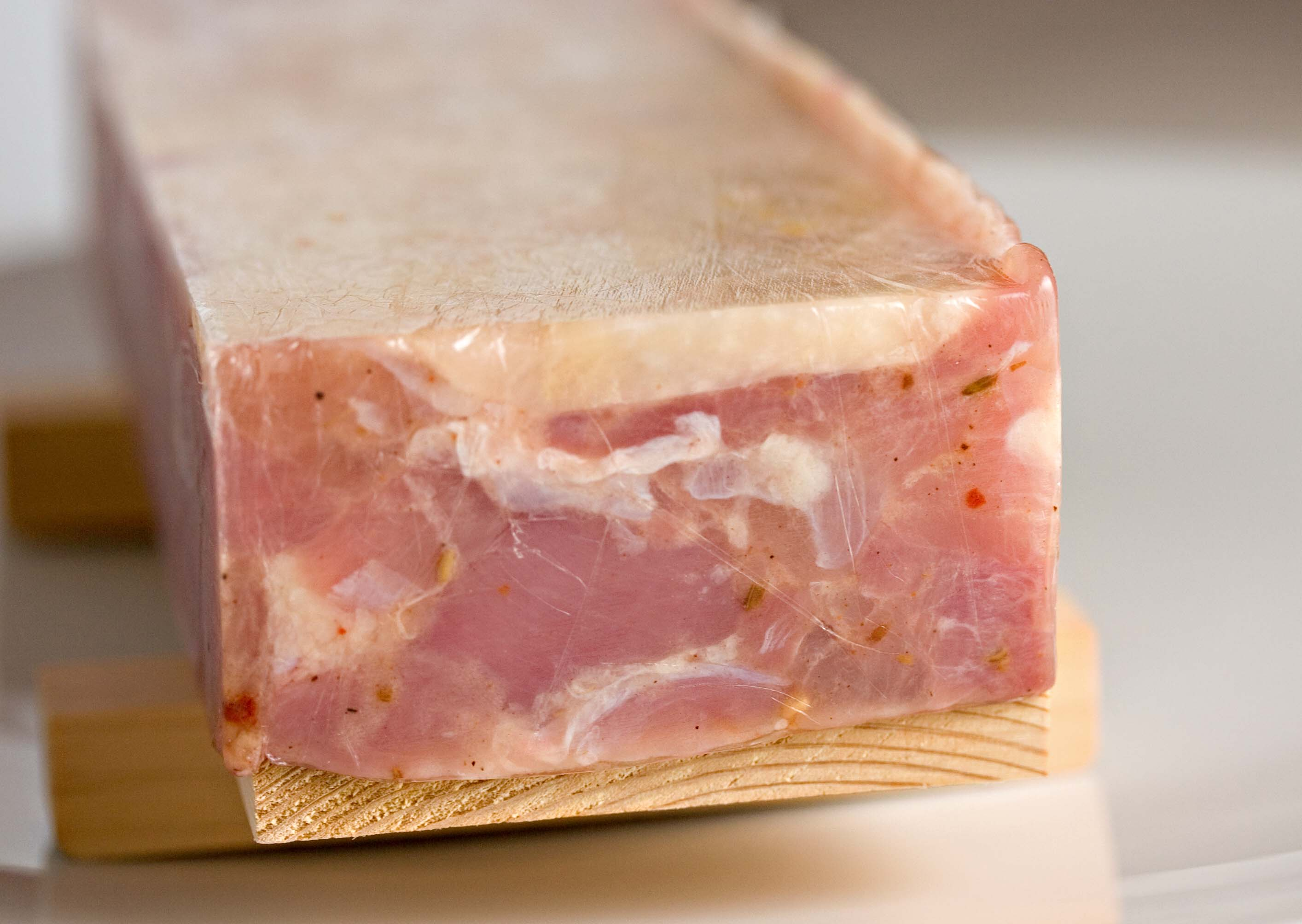 Chicken thigh terrine bound with transglutaminase